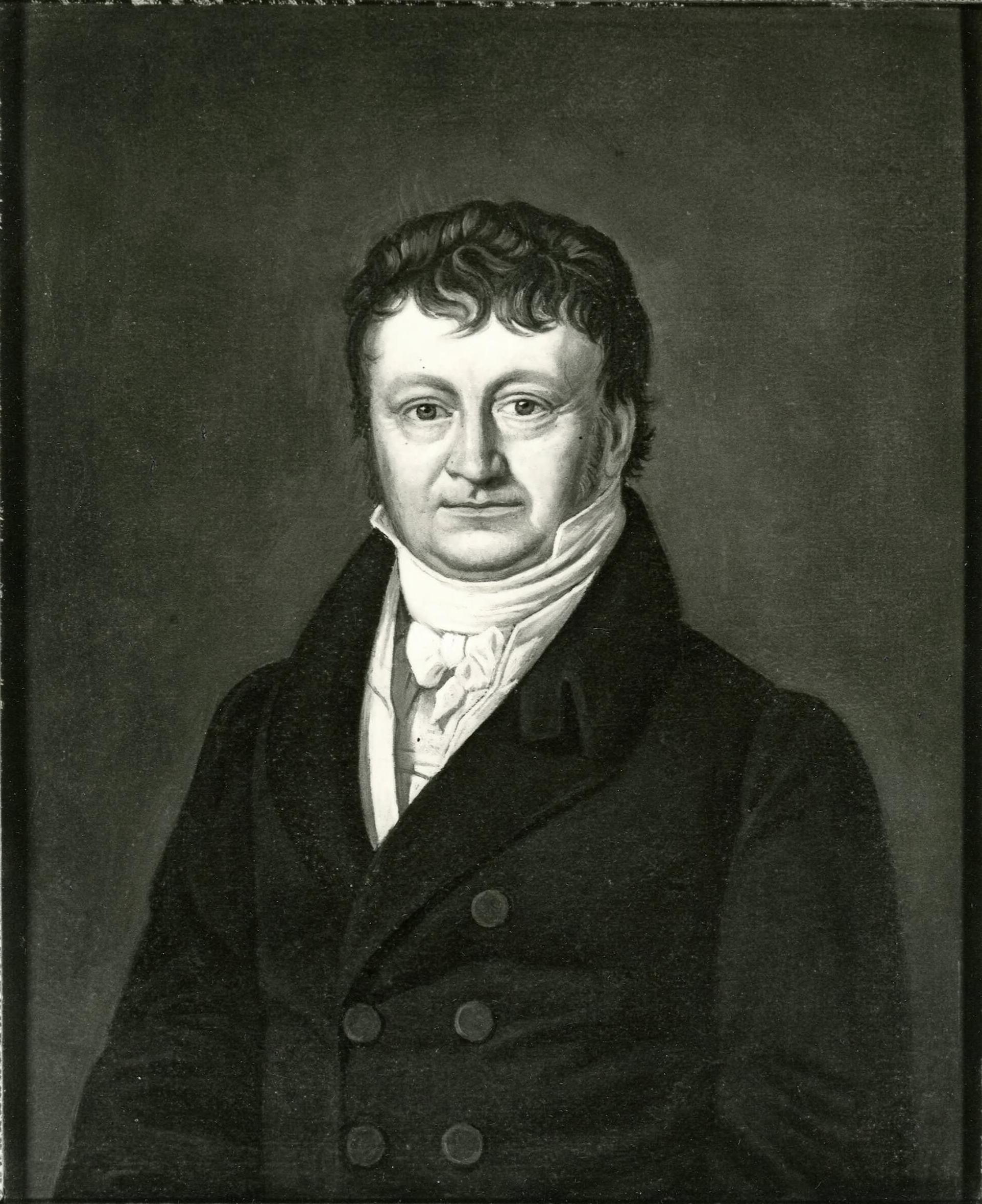 Maurits Adriaan de Savornin Lohman (1770-1833), mayor of Groningen (NL)